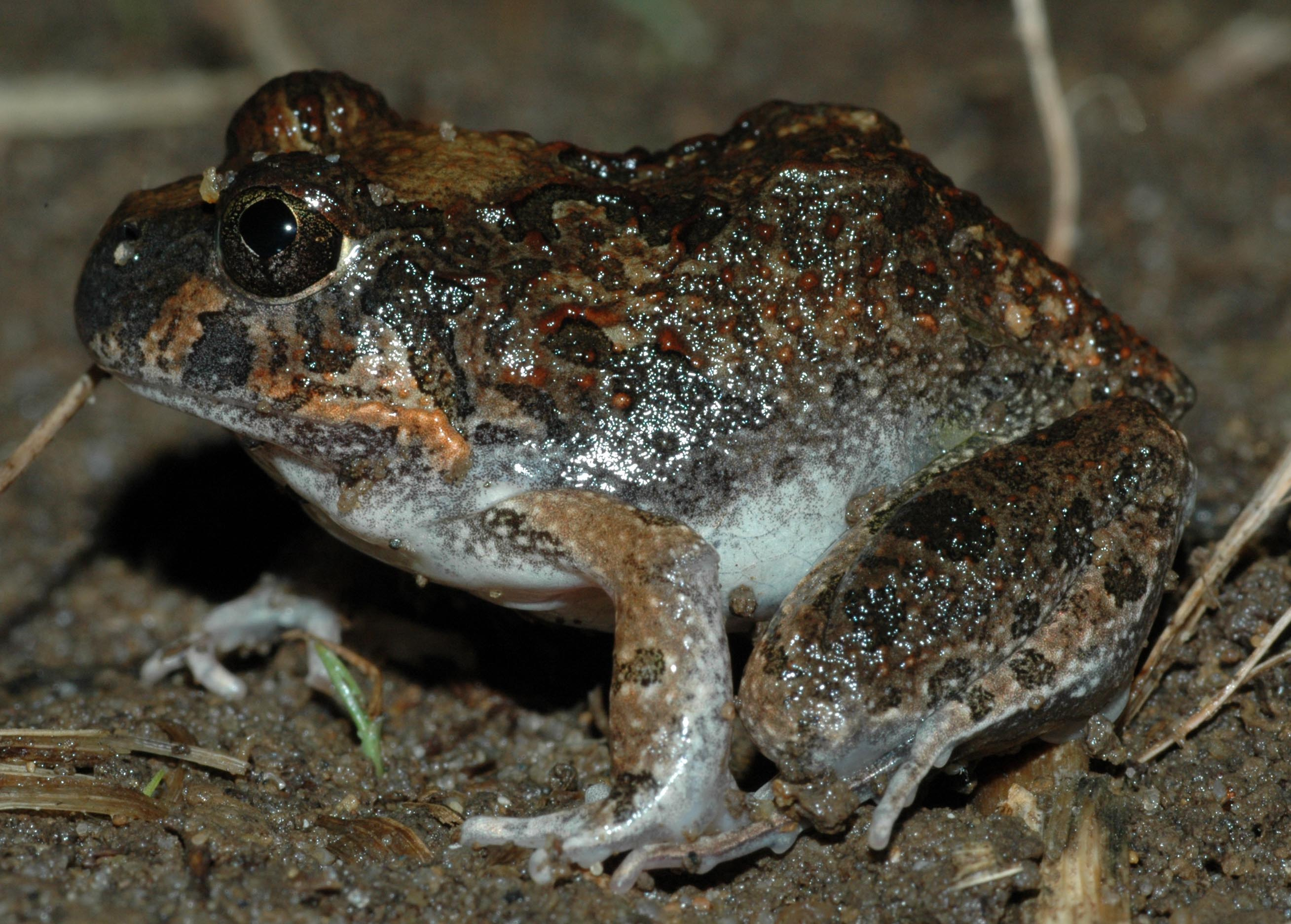 An Ornate Burrowing Frog (Limnodynastes ornatus) found at Piggabeen, NSW Australia.